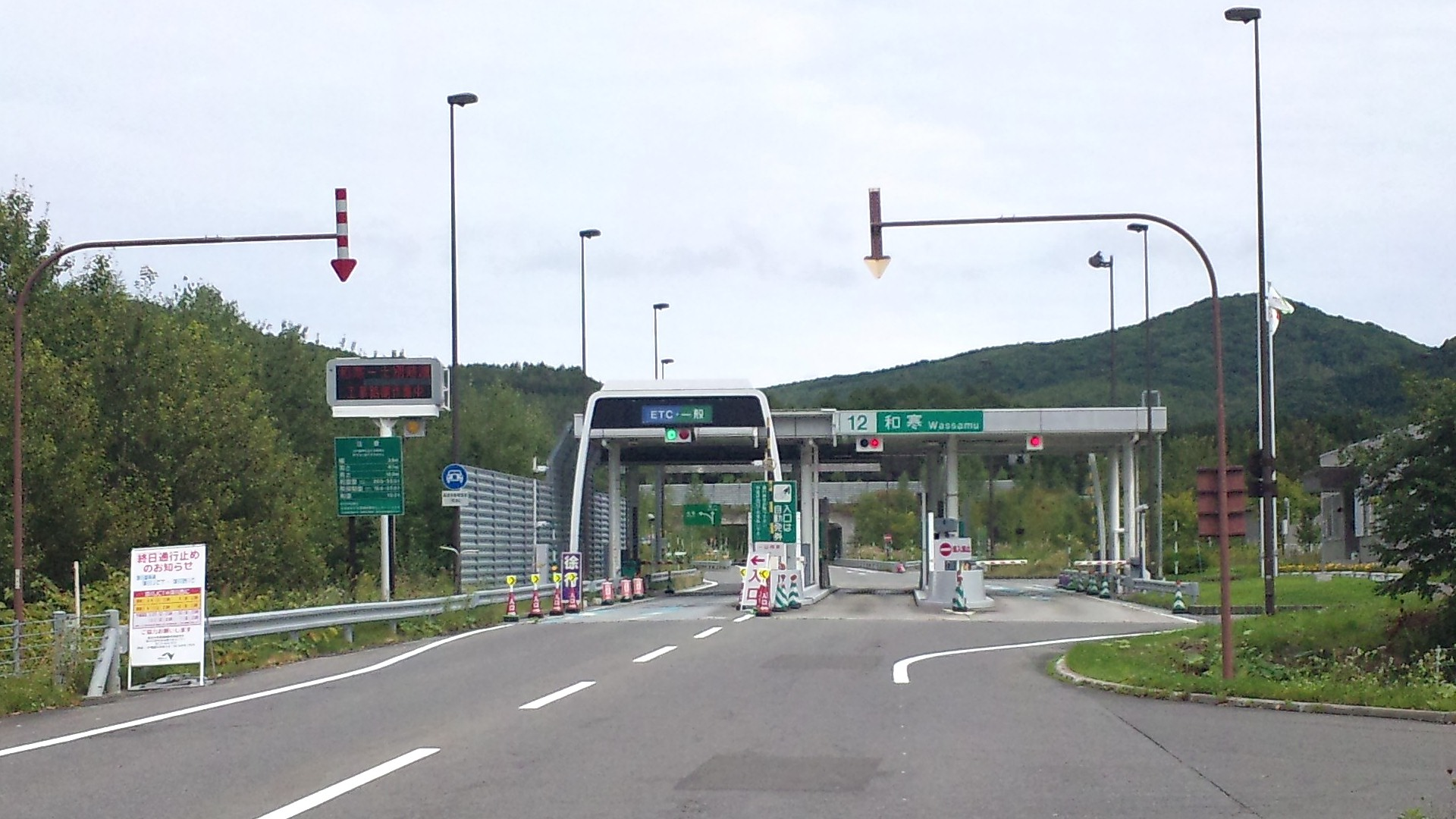 Wassamu interchange (toll gate), Hokkaido, Japan